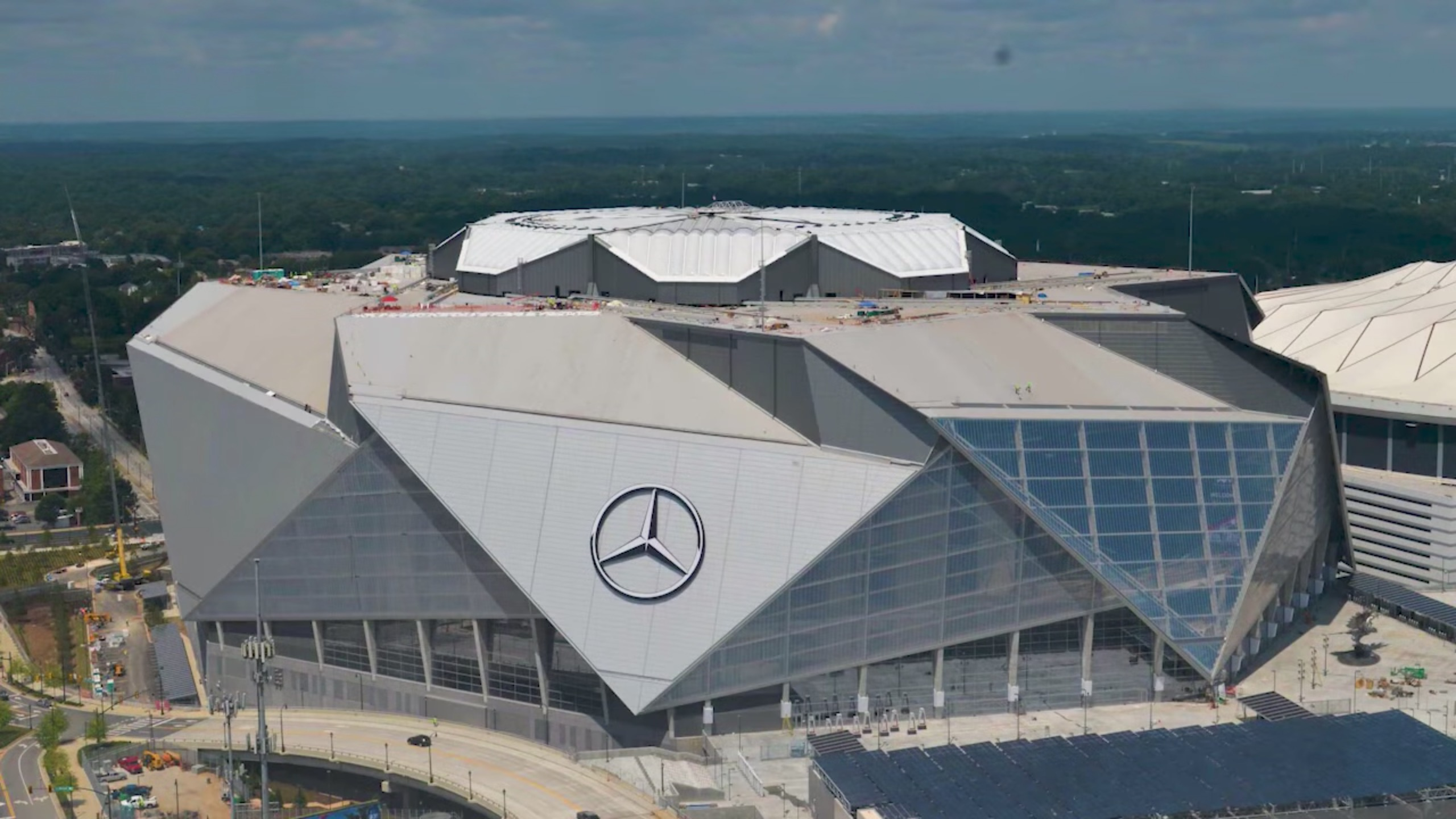 Capture from a time lapse video of Mercedes Benz Stadium in Atlanta, Georgia.